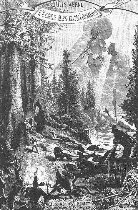 An illustration from Jules Verne's novel "Godfrey Morgan: A Californian Mystery" (also published as "Godfrey Morgan, School for Robinsons", and "School for Crusoes", 1882) drawn by Léon Benett.